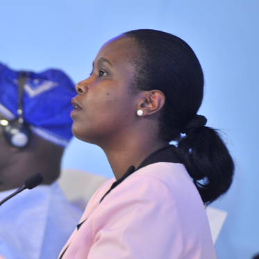 Caroline Kende-Robb, Executive Director APP, Olusegun Obasanjo, former Nigeria President, Claire Akamanzi, Minister of Agriculture of Rwanda, speaking at the African Development Bank Group annual meetings in Kigali, during APP panel meeting.